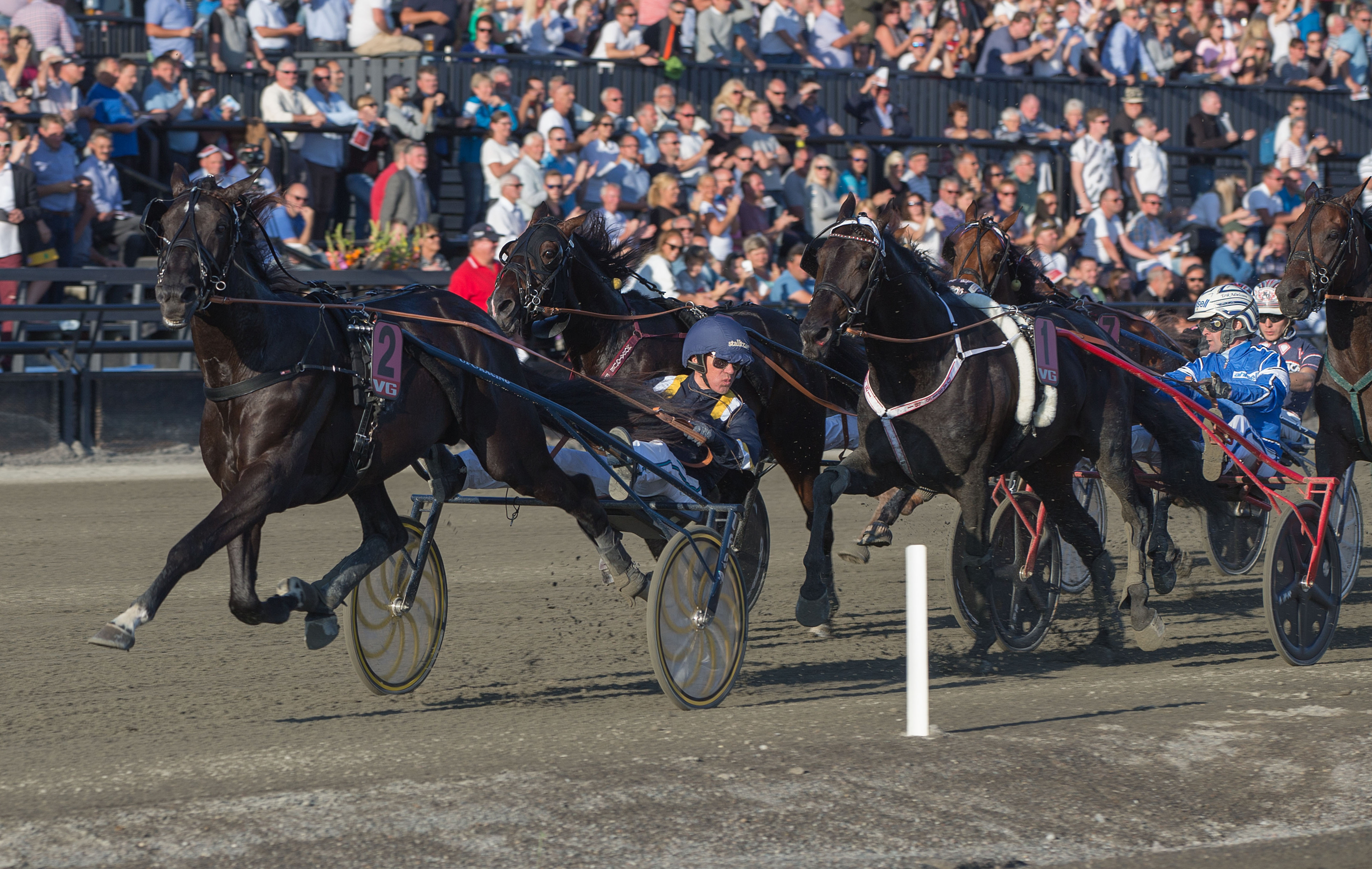 Nuncio and driver Örjan Kihlström wins UET Trotting Masters 2016.